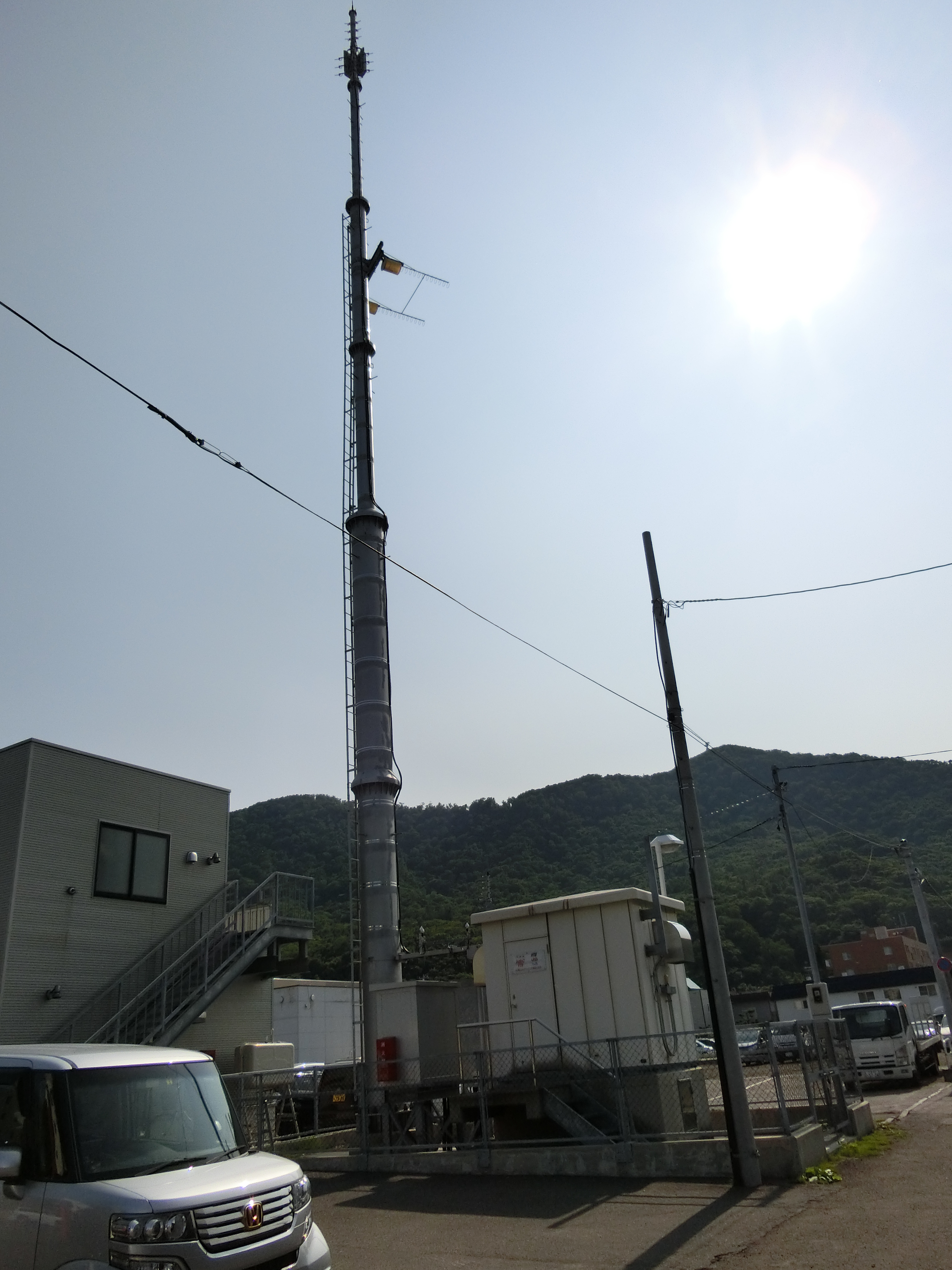 Sapporo Yamamoto Repeater located in South 25 West 11, Central Ward, Sapporo, Hokkaido